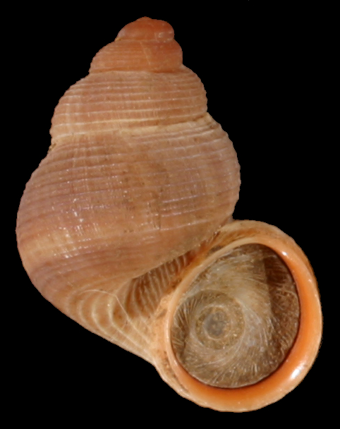 Photo of apertural view of the shell with an operculum of Tudorella sulcata. Locality: Italy: Sicilia, Agrigento. Date: 2 April 1958.